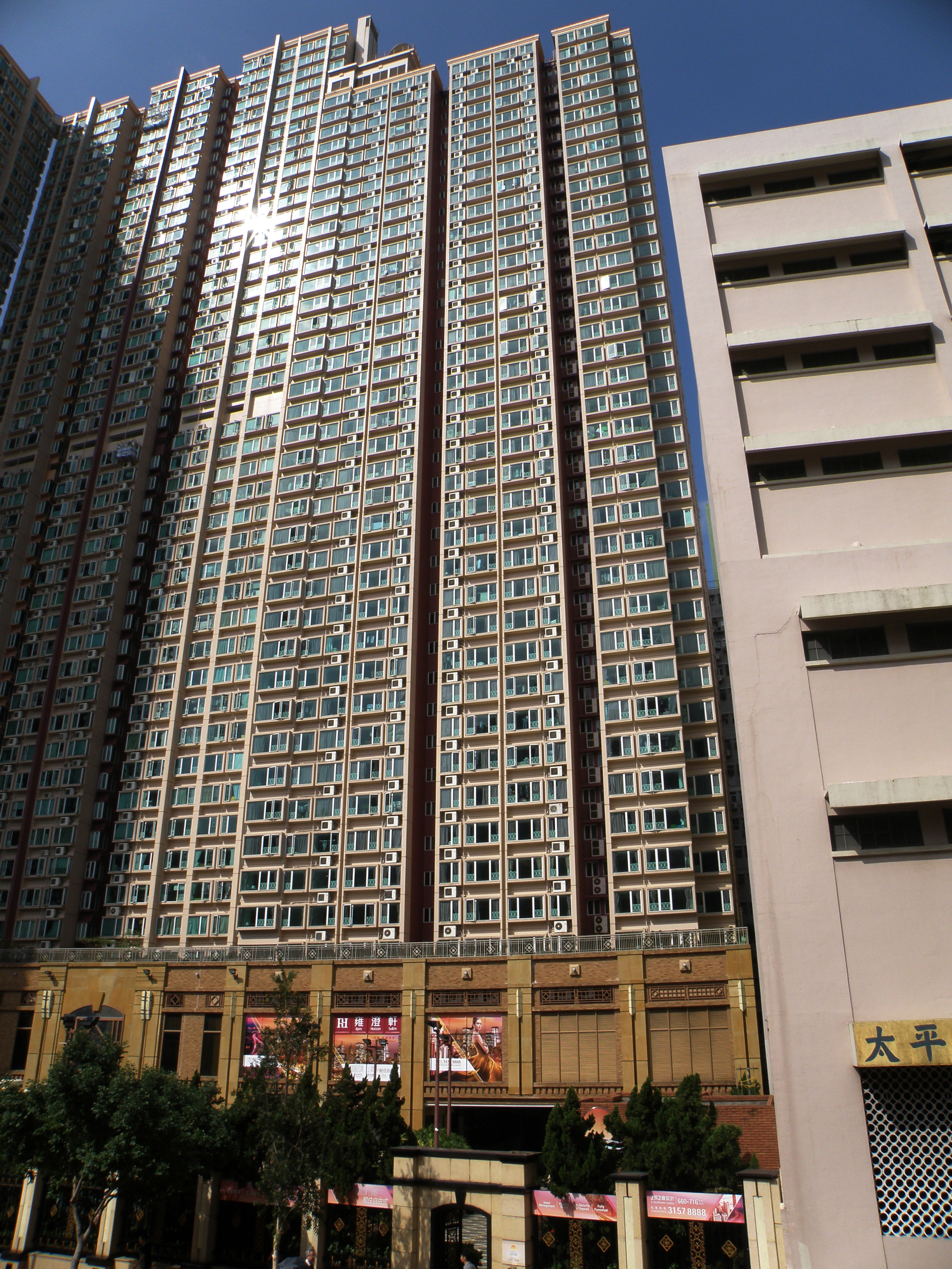 Apex Horizon All-Suite Hotel in Kwai Chung, Hong Kong.